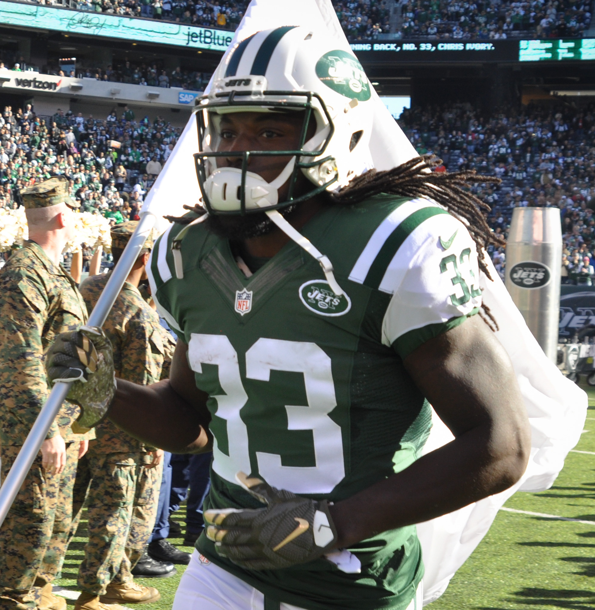 New York Jets running back, Chris Ivory, in a game against the Jacksonville Jaguars on November 8, 2015.